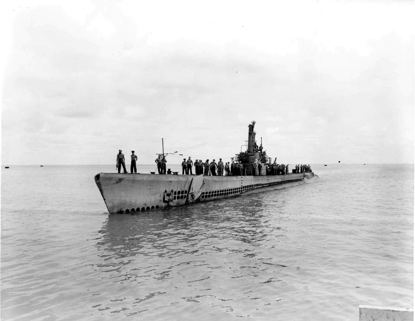 The U.S. Navy submarine USS Manta (SS-299) approaching the wharf, probably at Pearl Harbor, Hawaii, on 10 September 1945 at the conclusion of her second and last war patrol.